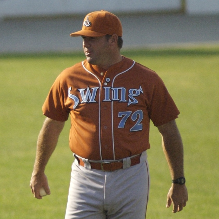 Pitcher Randy Roth (left) and coach Bryan Eversgerd (right) of the Swing of the Quad Cities in Battle Creek, Michigan in 2006.